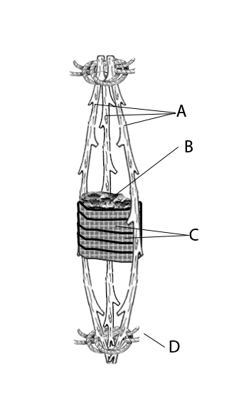 Homemade karthikai deepam festival firework used in taminadu region - india